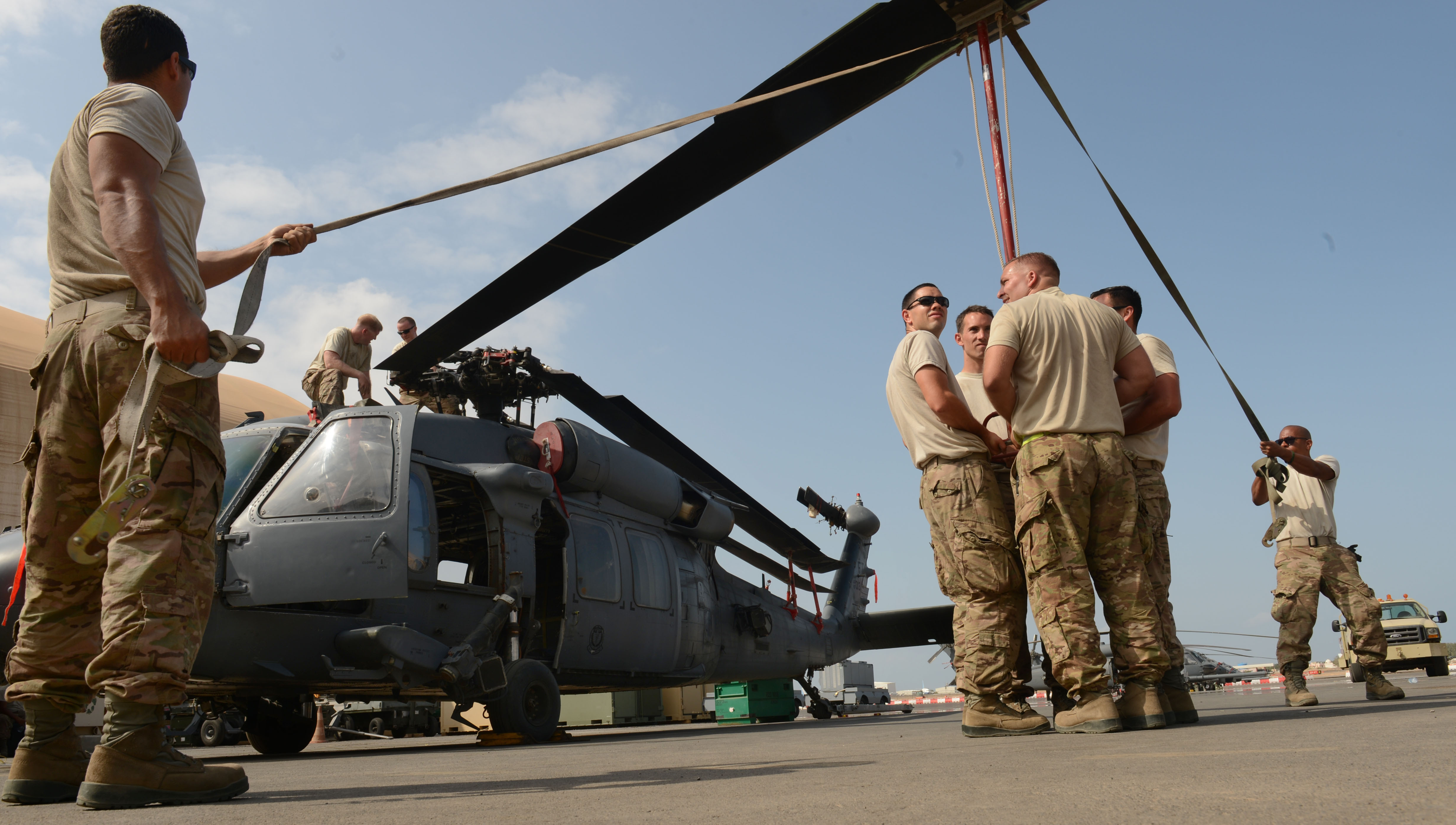 The 303rd Expeditionary Rescue Squadron operators and maintainers fold the HH-60G Pavehawk helicopter rotor blade back in preparation for shipment on Camp Lemonnier, Djibouti, Jan. 28, 2014. The operators and maintainers broke down each HH-60G Pave Hawk in preparation to redeploy to Nellis Air Force Base, Nev. (U.S. Air Force photo by Senior Airman Tabatha Zarrella/Released)